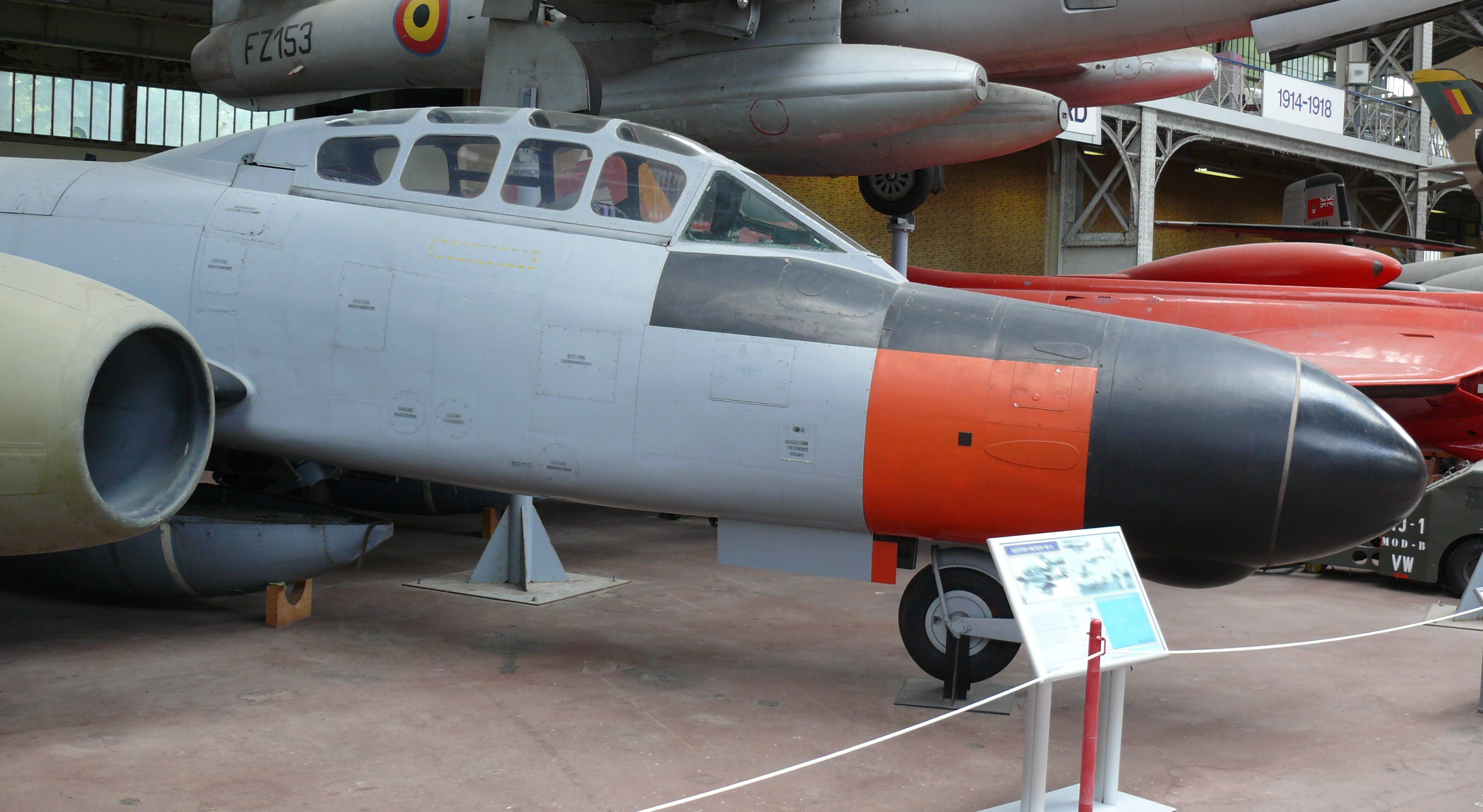 Armstrong Whitworth Meteor NF.11, night fighter, in the Royal Military Museum at the Jubelpark, Brussels.